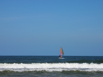 Alguien practicando windsurf